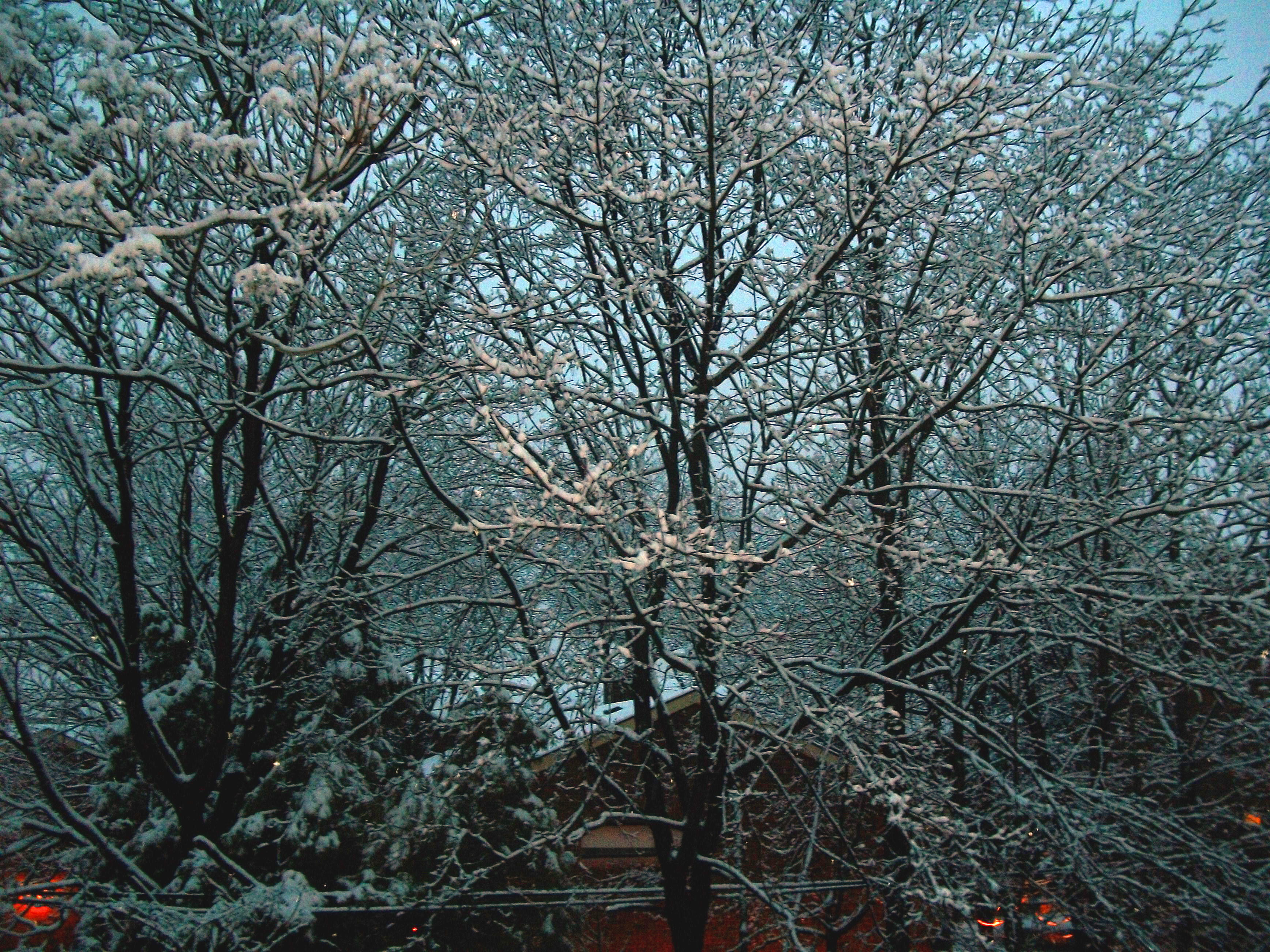 Early morning looking west. A tree in Summit, New Jersey, after an overnight snowfall.